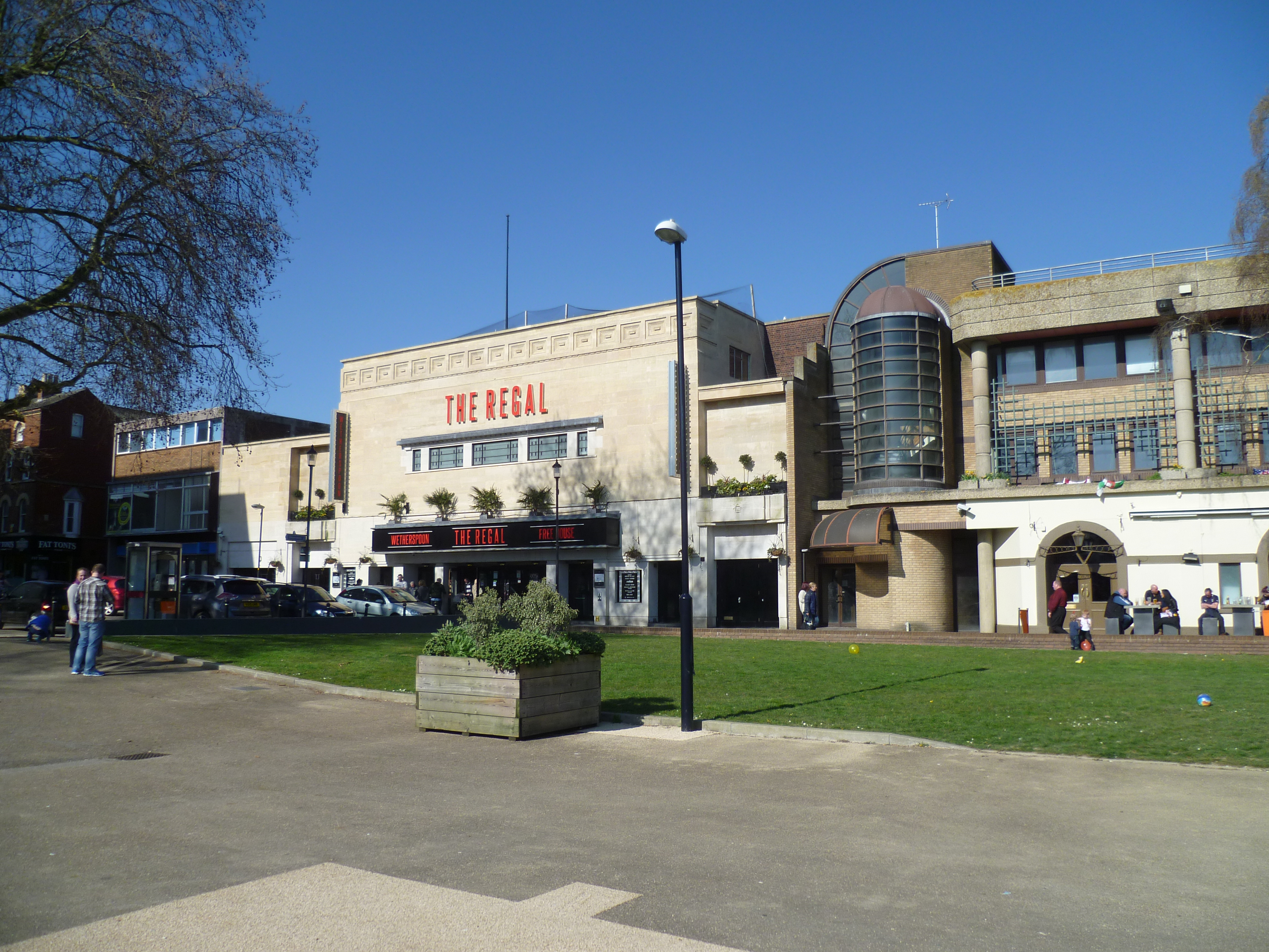 Gloucester